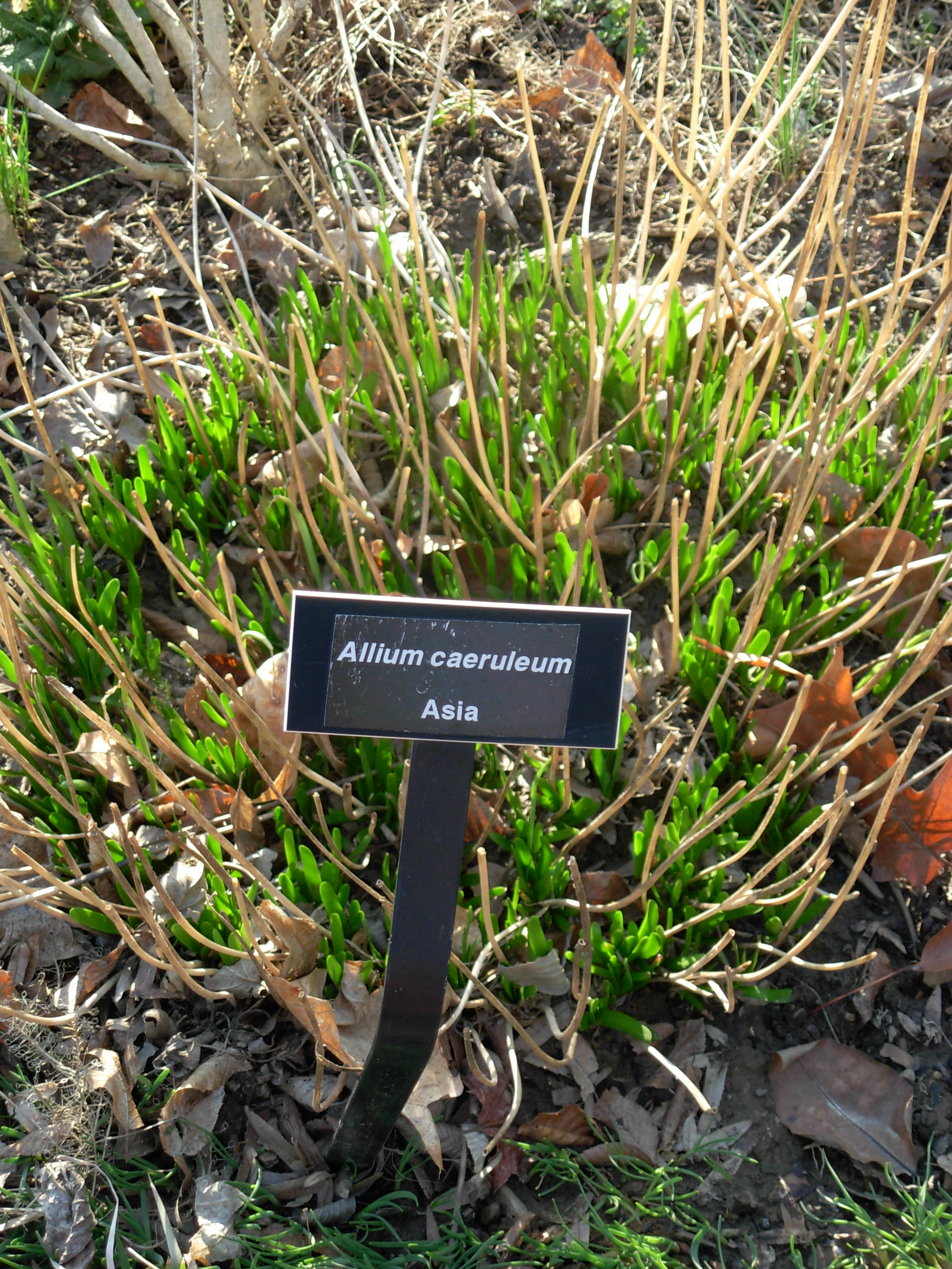 Allium caeruleum in Phipps conservatory, Pittsburgh.